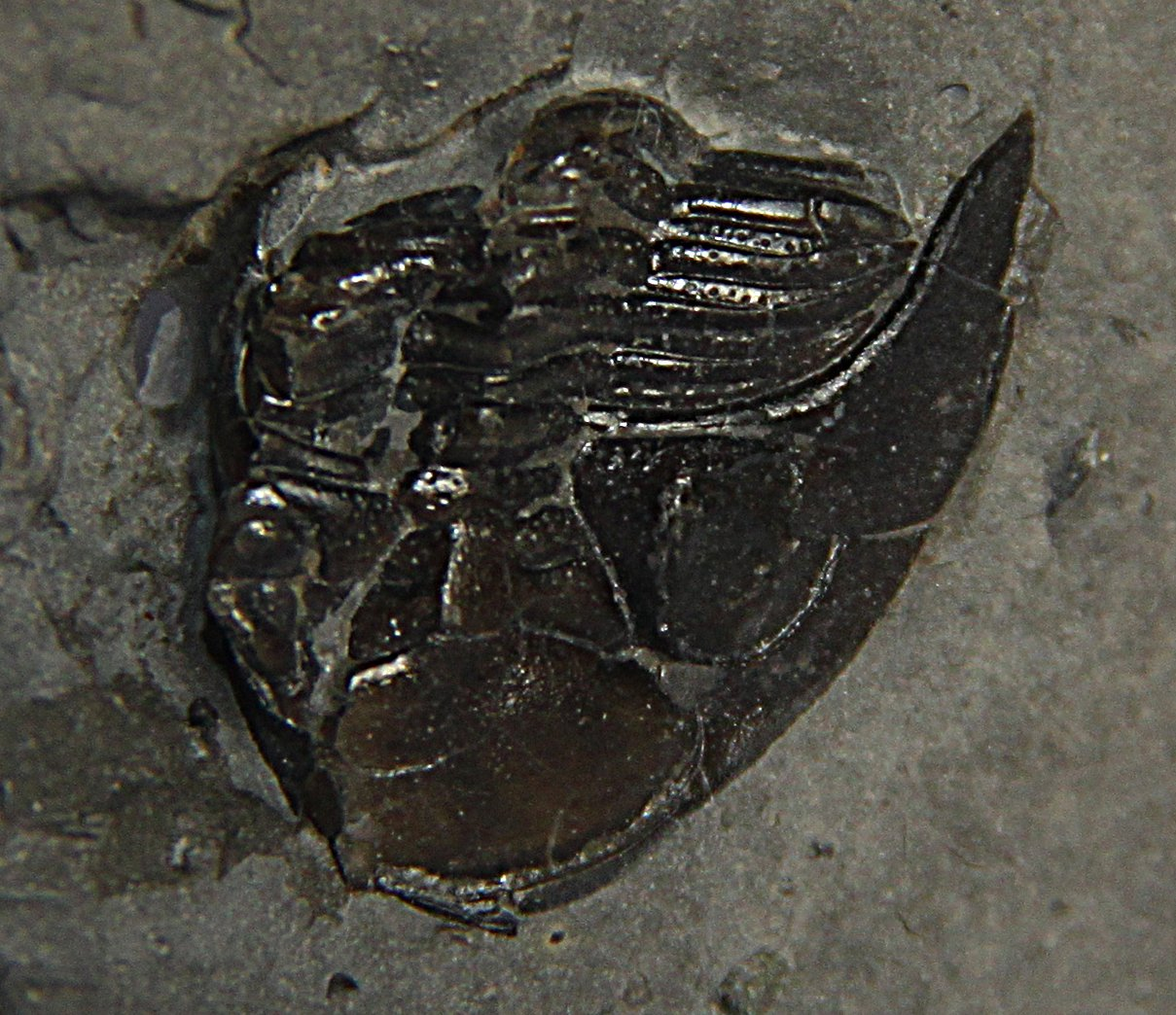 A Greenops barberi trilobite, Order Phacopida, Family Acastidae, 34mm in outstretched projection, collected from the Windom Shale, near Elma, New York State, USA, from the Middle Devonian (Givetian)